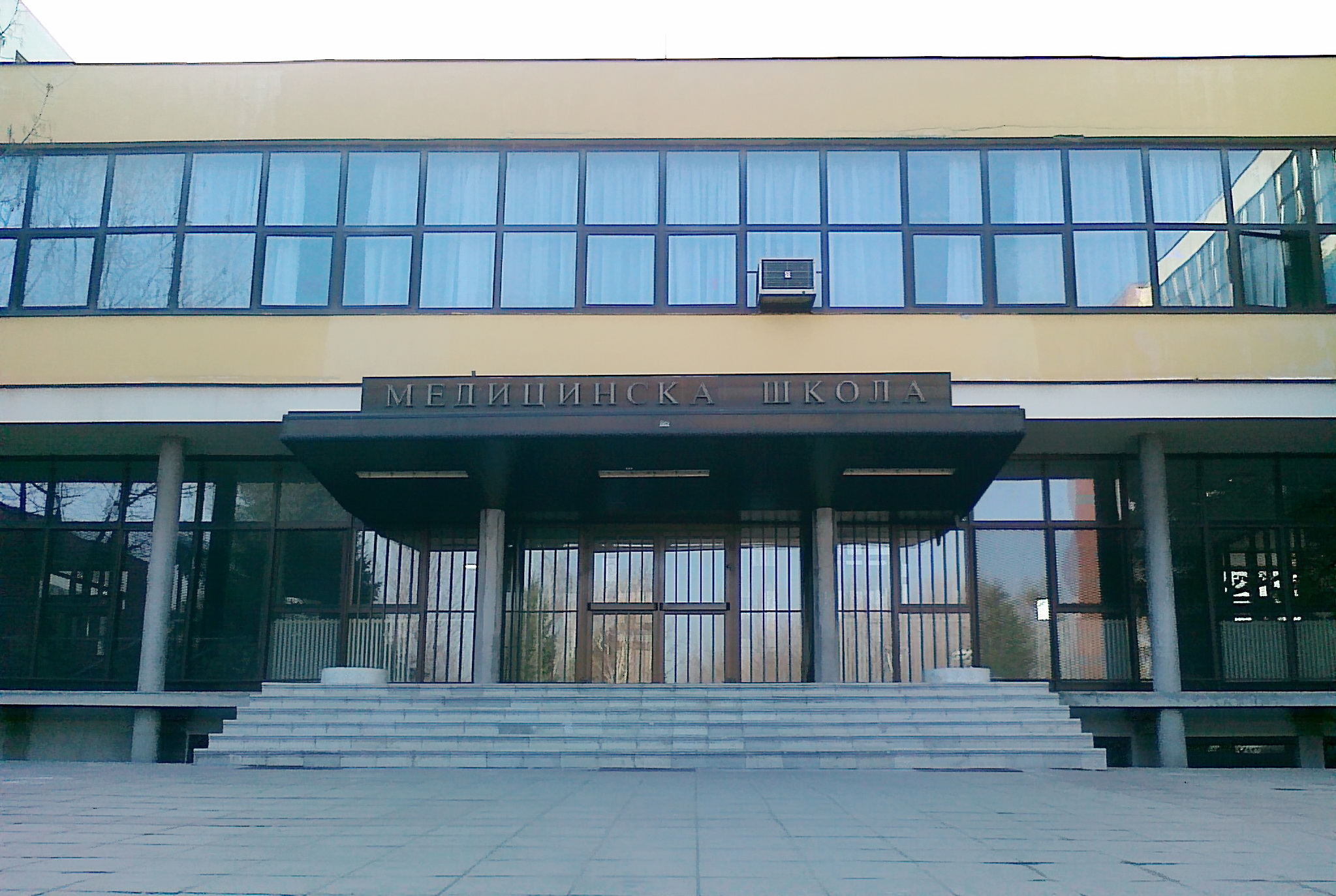 Main Enterance of Zvezdara Nursing School (Medicinska škola) in Zvezdara, Belgrade, Serbia.